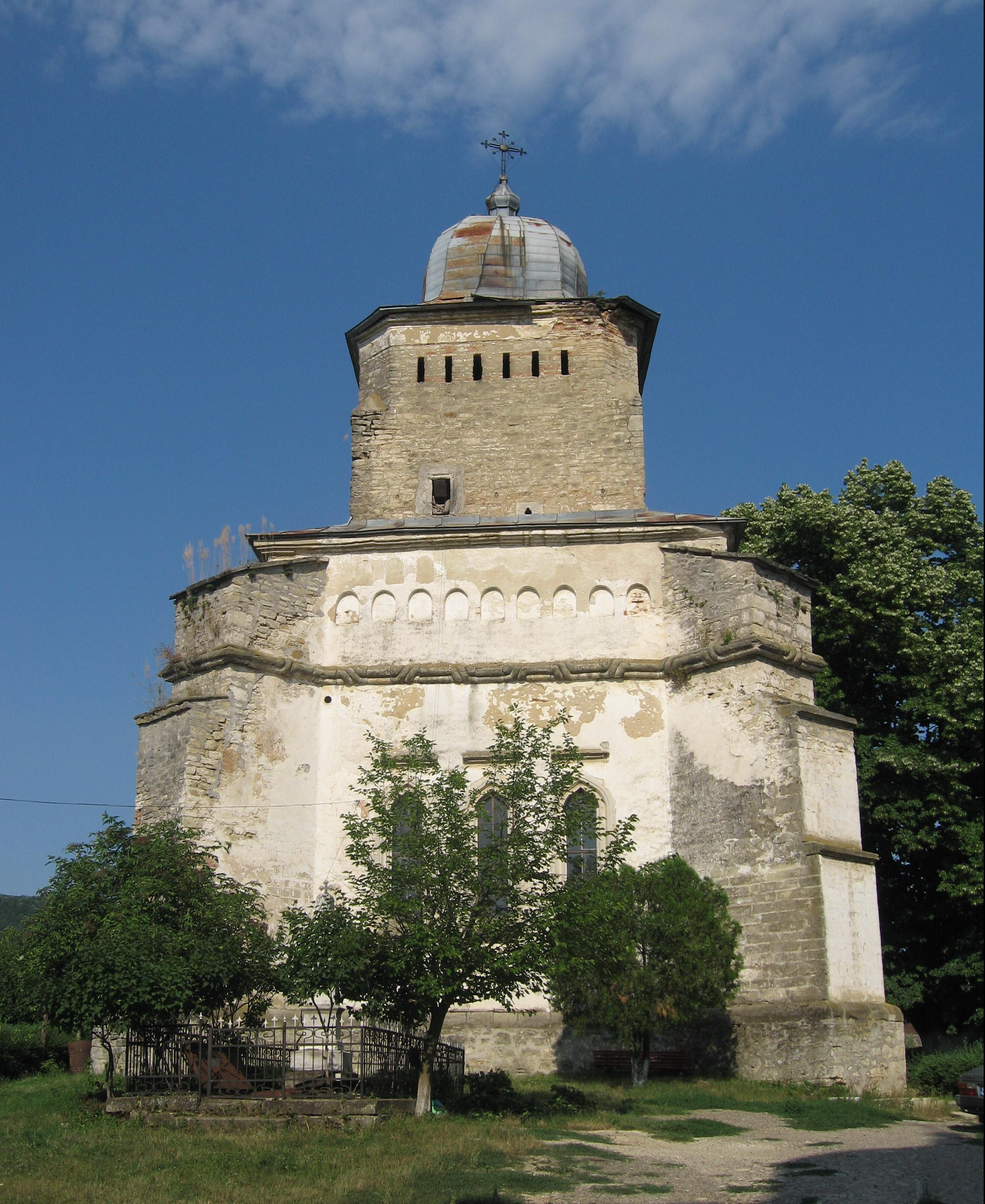 Mănăstirea Bârnova 01